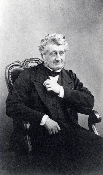 Photographic portrait of Adolphe-Théodore Brongniart (1801-1876), French paleobotanist, plant taxonomist and anatomist.